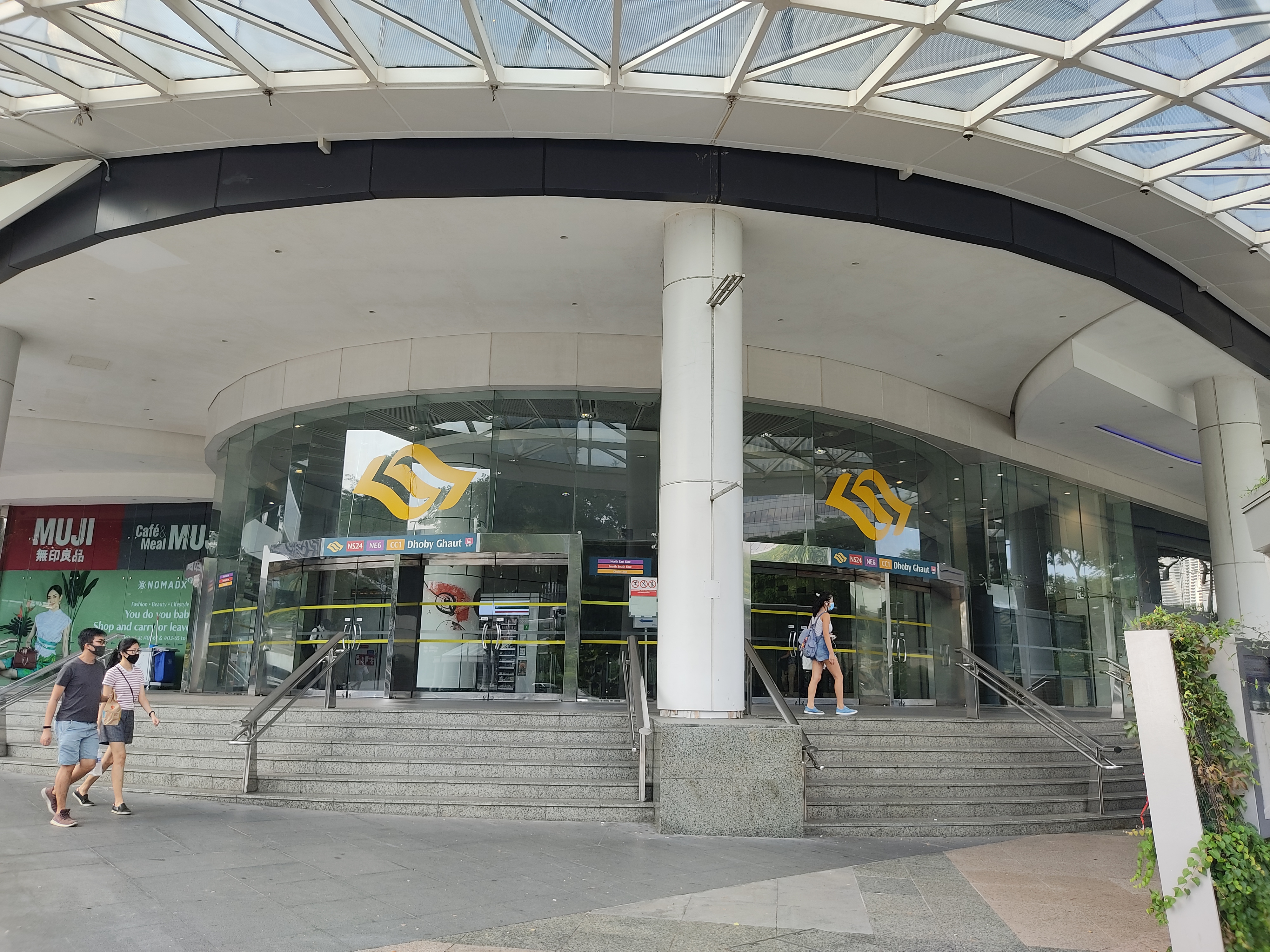 Dhoby Ghaut MRT Entrance